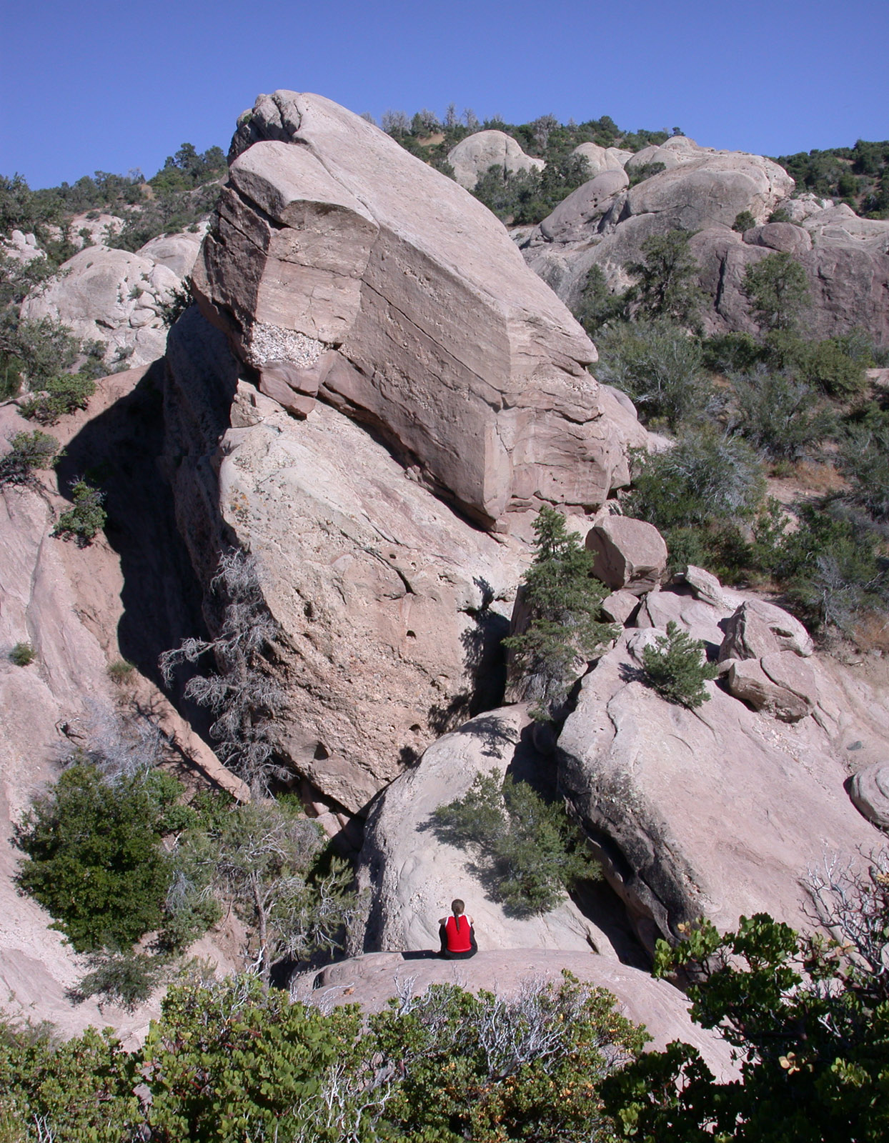 Photo taken by User:Jamesb01 in June, 2006. (Nikon 995)